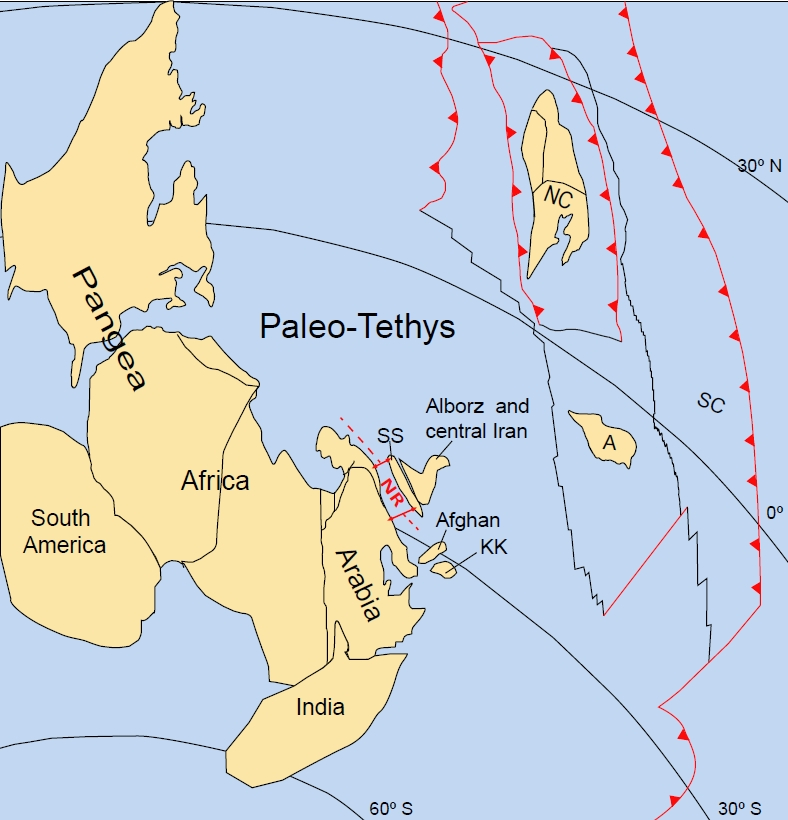 Late Carboniferous paleogeography (~350 Ma) with the Paleo-Tethys and elements of Iranian geology indicated